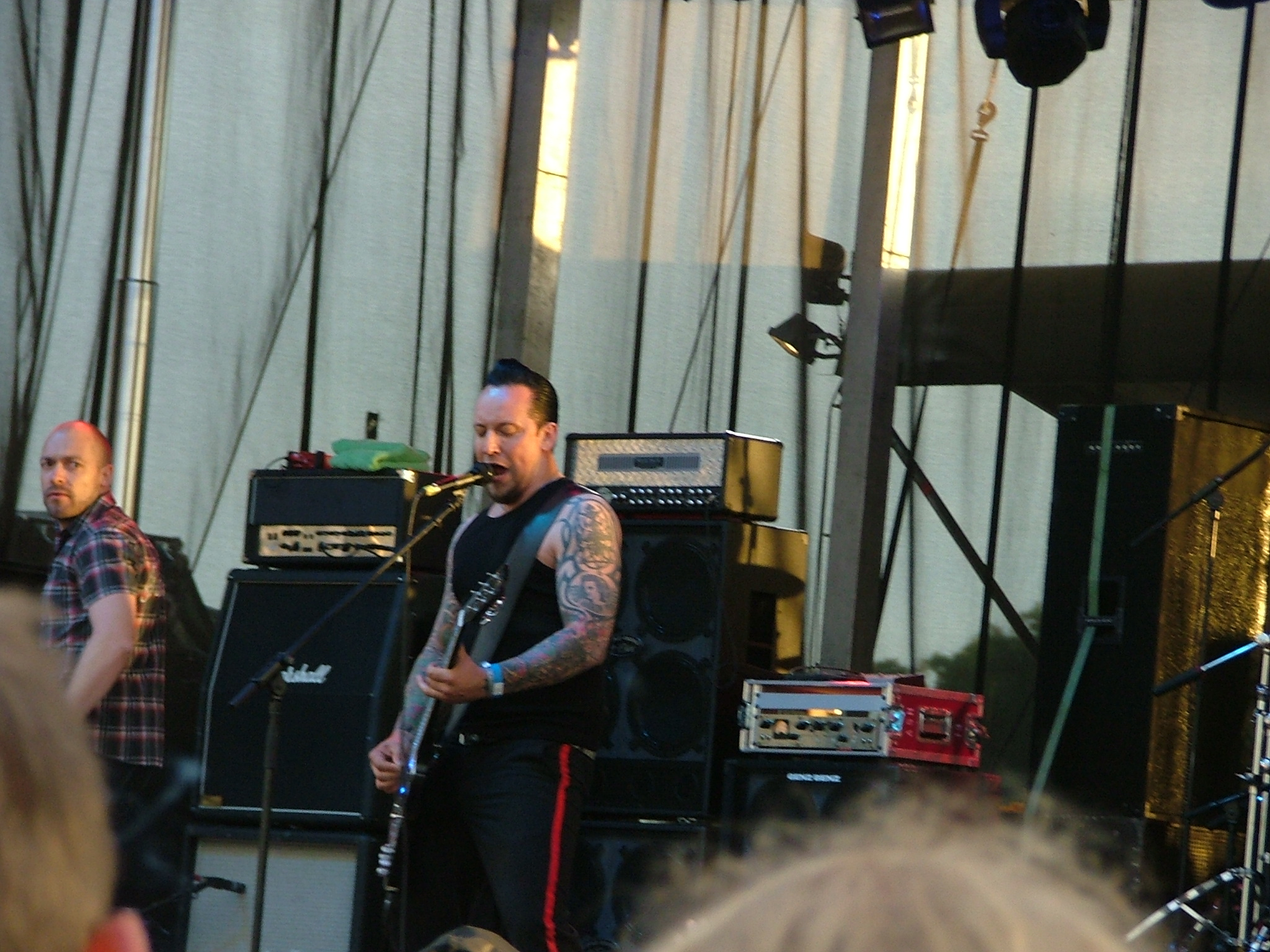 Danish heavy metal band Volbeat at the Summer Breeze in Dinkelsbühl